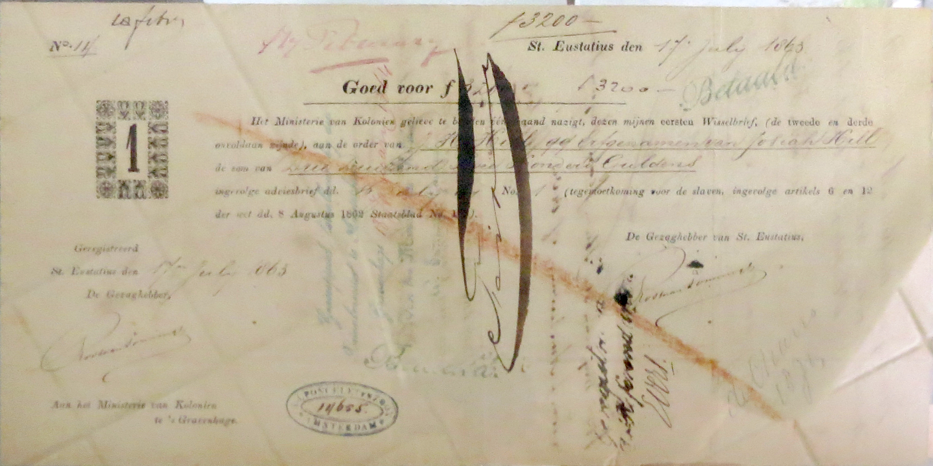 Cheque for 3200 guilders as compensation for letting go slaves in 1863. Museum Sint Eustatius